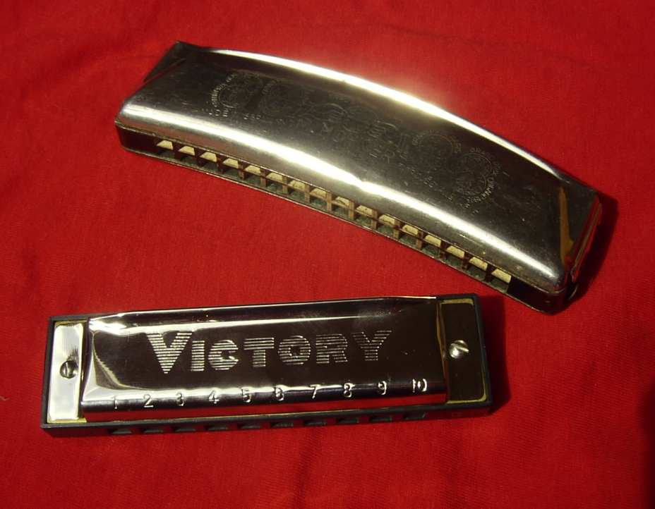 diatonic harmonicas a) upper: blues harp (C) "Victory" b) lower: Tremolo Harmonica "Unsere Lieblinge" (Our favorites), Manufacturer: Hohner